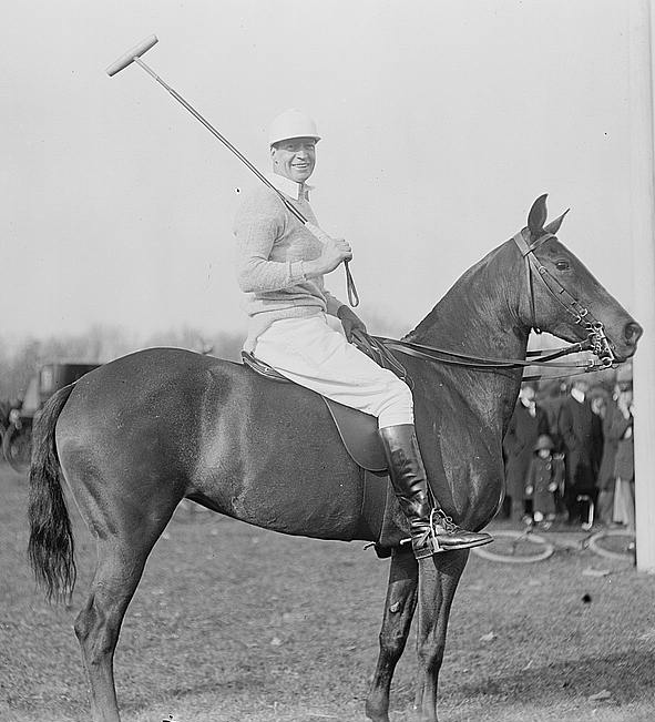 Title: R.L. Agassiz [on horse] - polo Abstract/medium: 1 negative : glass ; 5 x 7 in. or smaller.